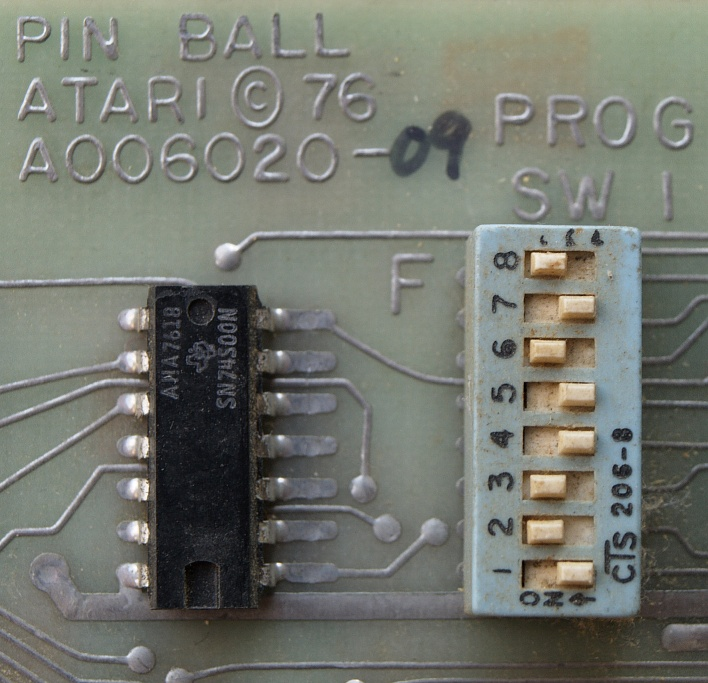 DIP-Switch as part of a PCB from 1976